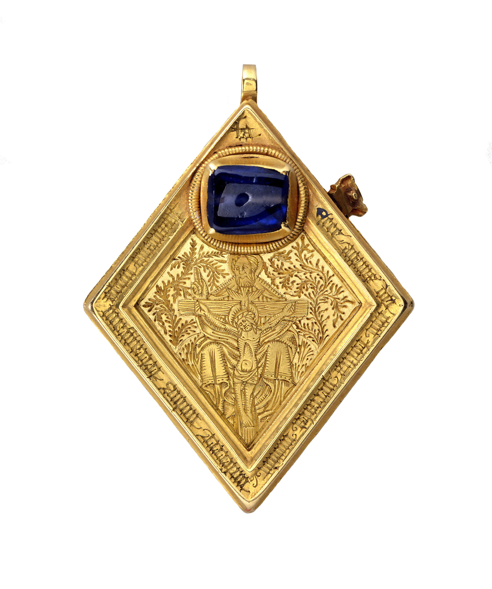 Gold lozenge-shaped pendant with a sapphire. Engraved with religious subjects and inscription.